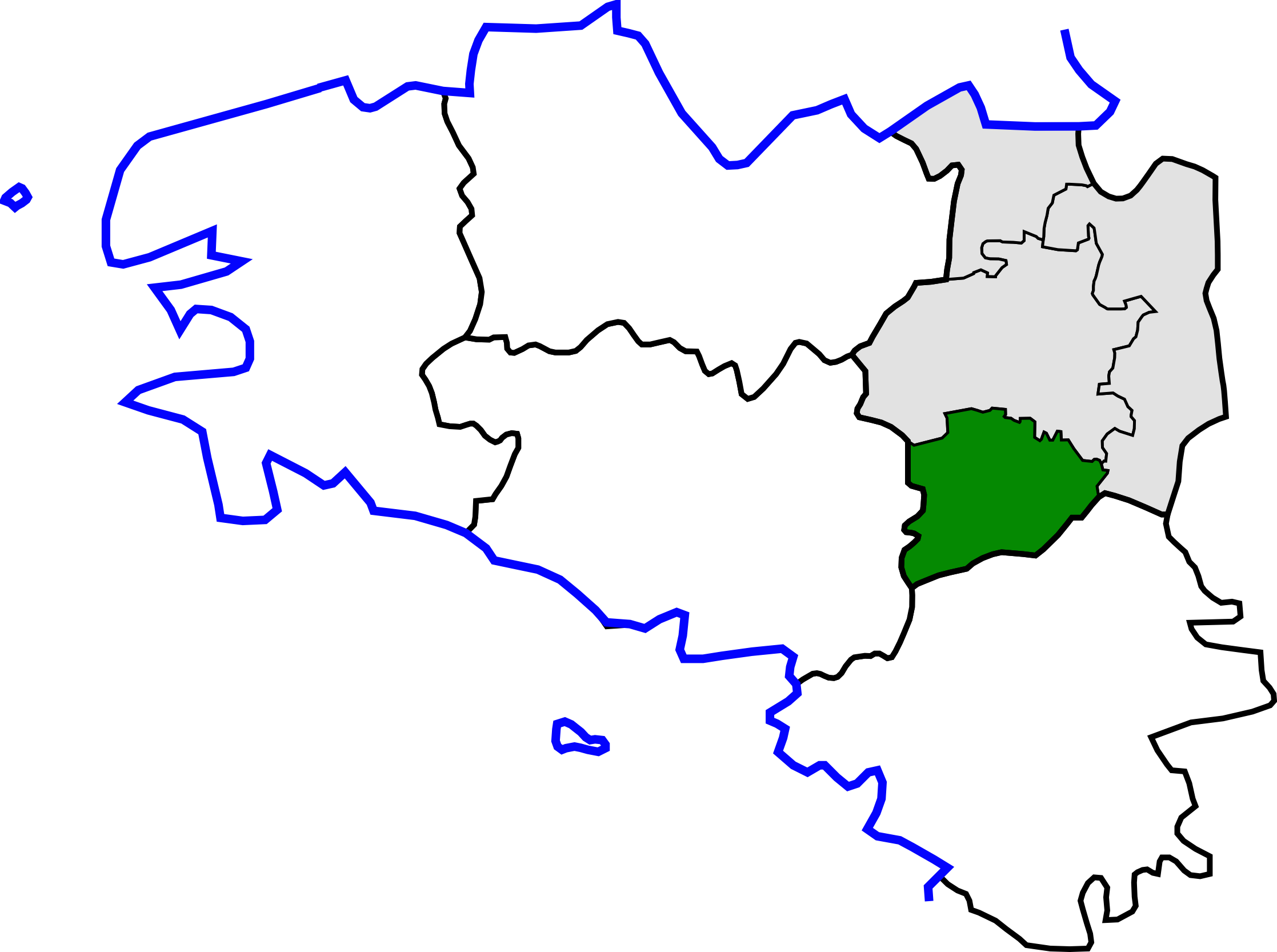 Map for localisazion of arrondissements of Brittany, in France